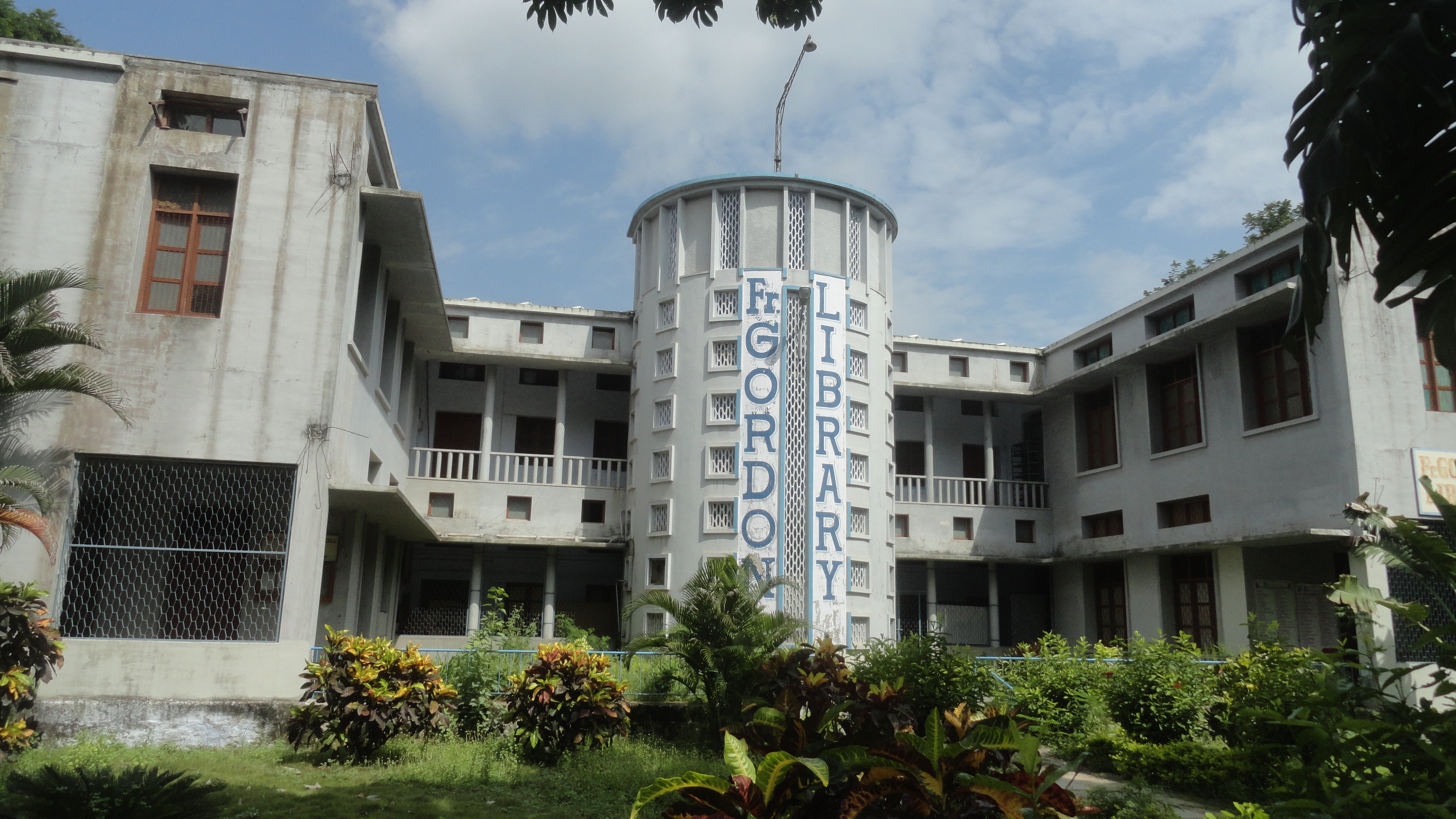 Andhra layola college